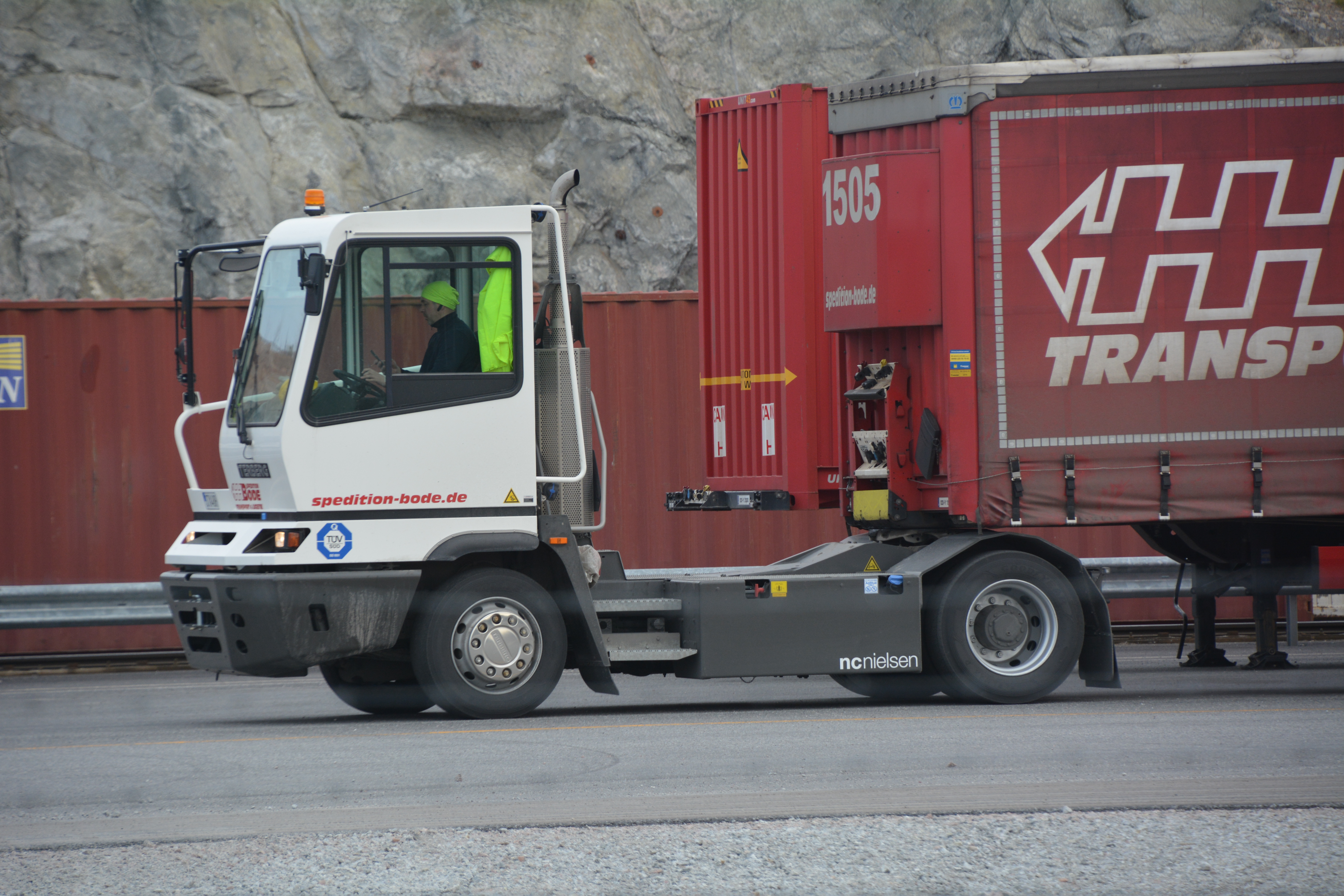 Terberg terminal tractor, Stockholm Nord Container Terminal, Sweden